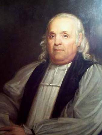 Portrait of Thomas John Claggett (1743-1816), Episopal Bishop of Maryland